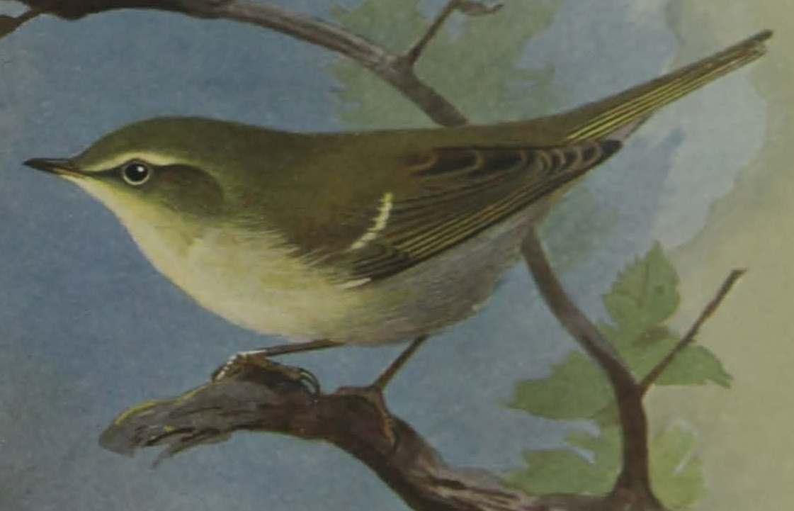 Phylloscopus trochiloides Thorburn